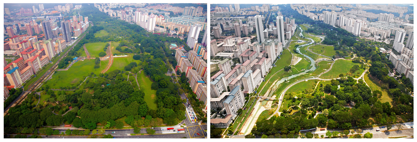 Bishan Park, Singapore, in 2008 (left) with the Kallang River as a concrete canal; and in 2011 (right) with the renaturalised Kallang River.